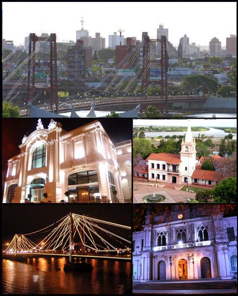 Montage of Santa Fe city, Argentina.